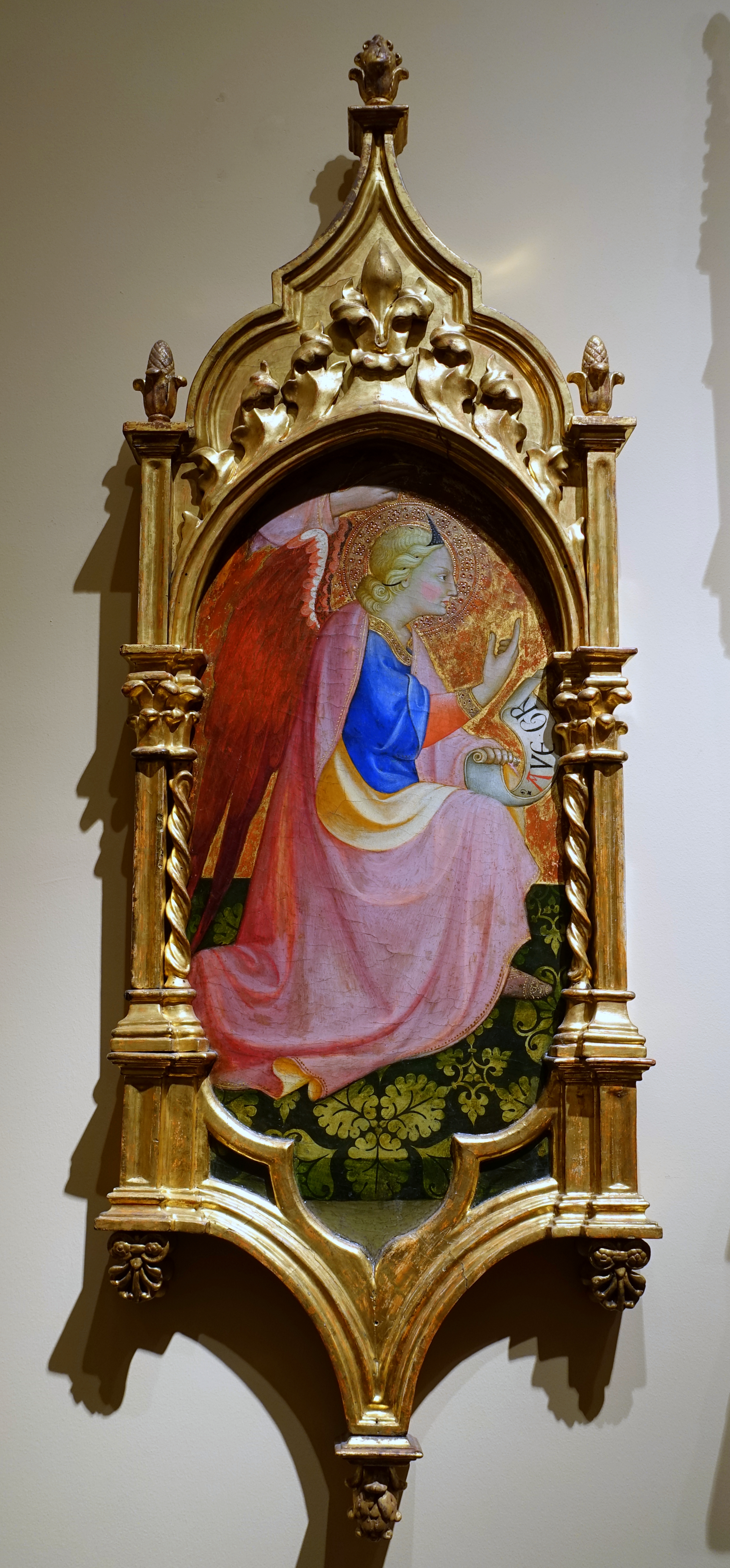 Exhibit in the John and Mable Ringling Museum of Art - Sarasota, Florida, USA.